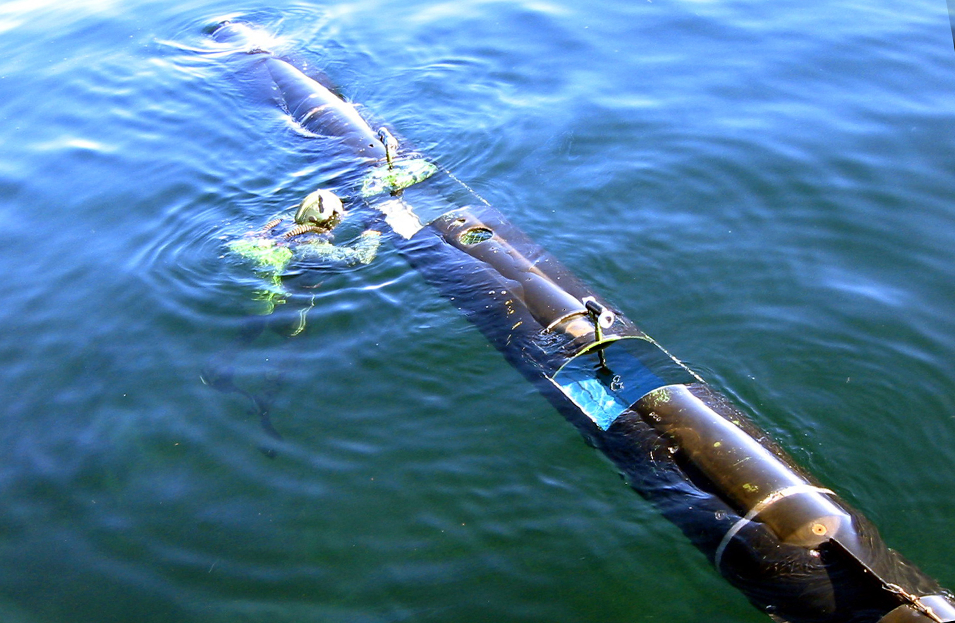 Sirena-UM midget submarine